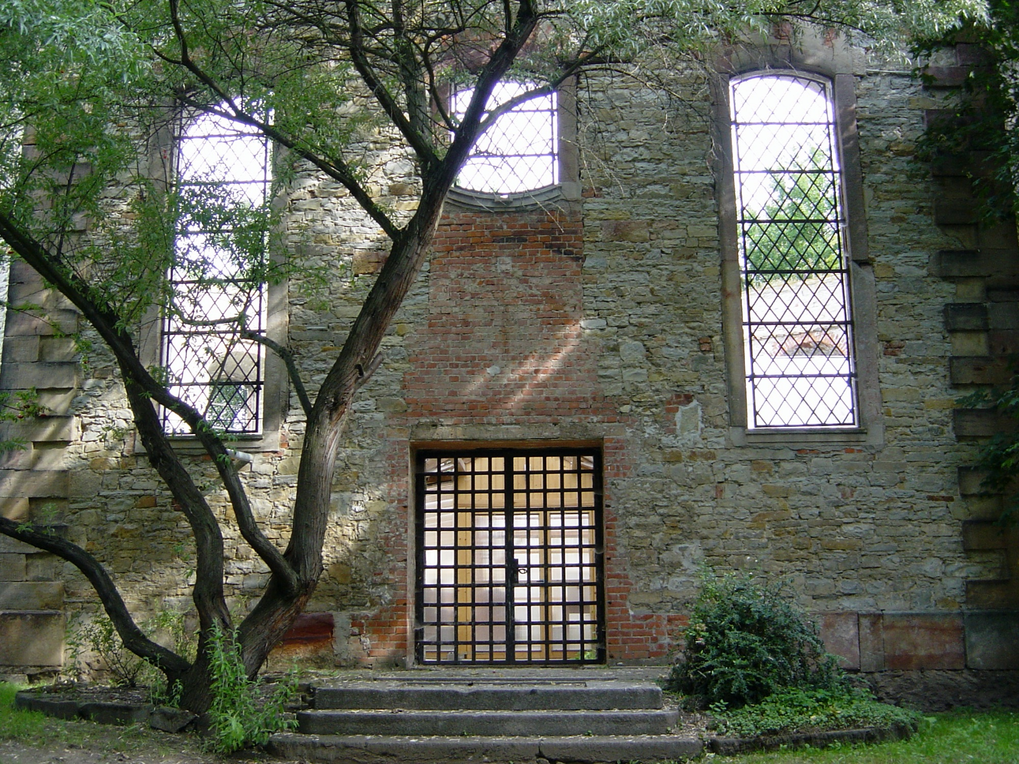 Church in Domersleben, Saxony-Anhalt, Germany